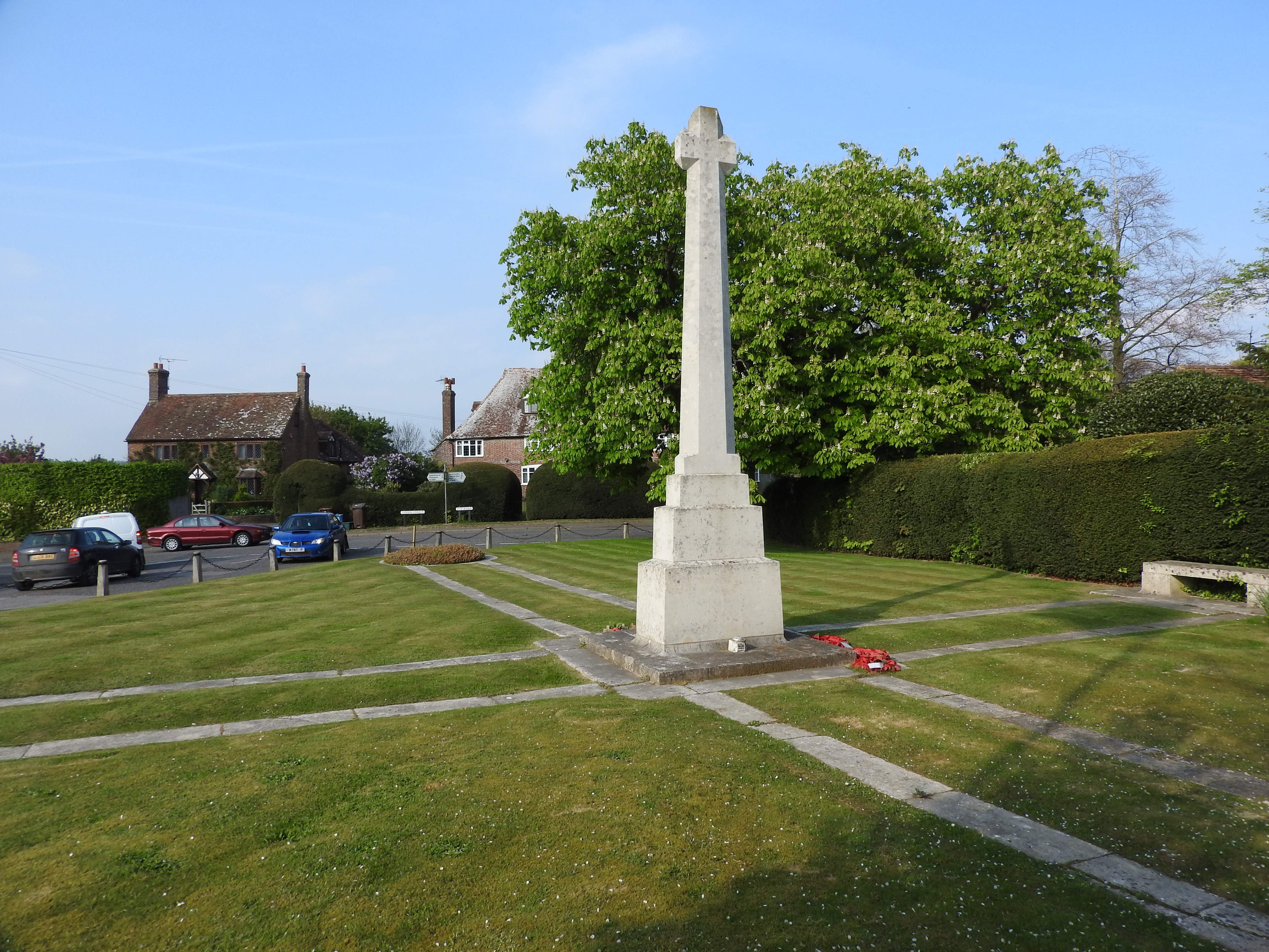 Sandhurst war memorial, Kent by Lutyens in Sandhurst, Kent is close to the Clocktower monument. Both are listed buildings.